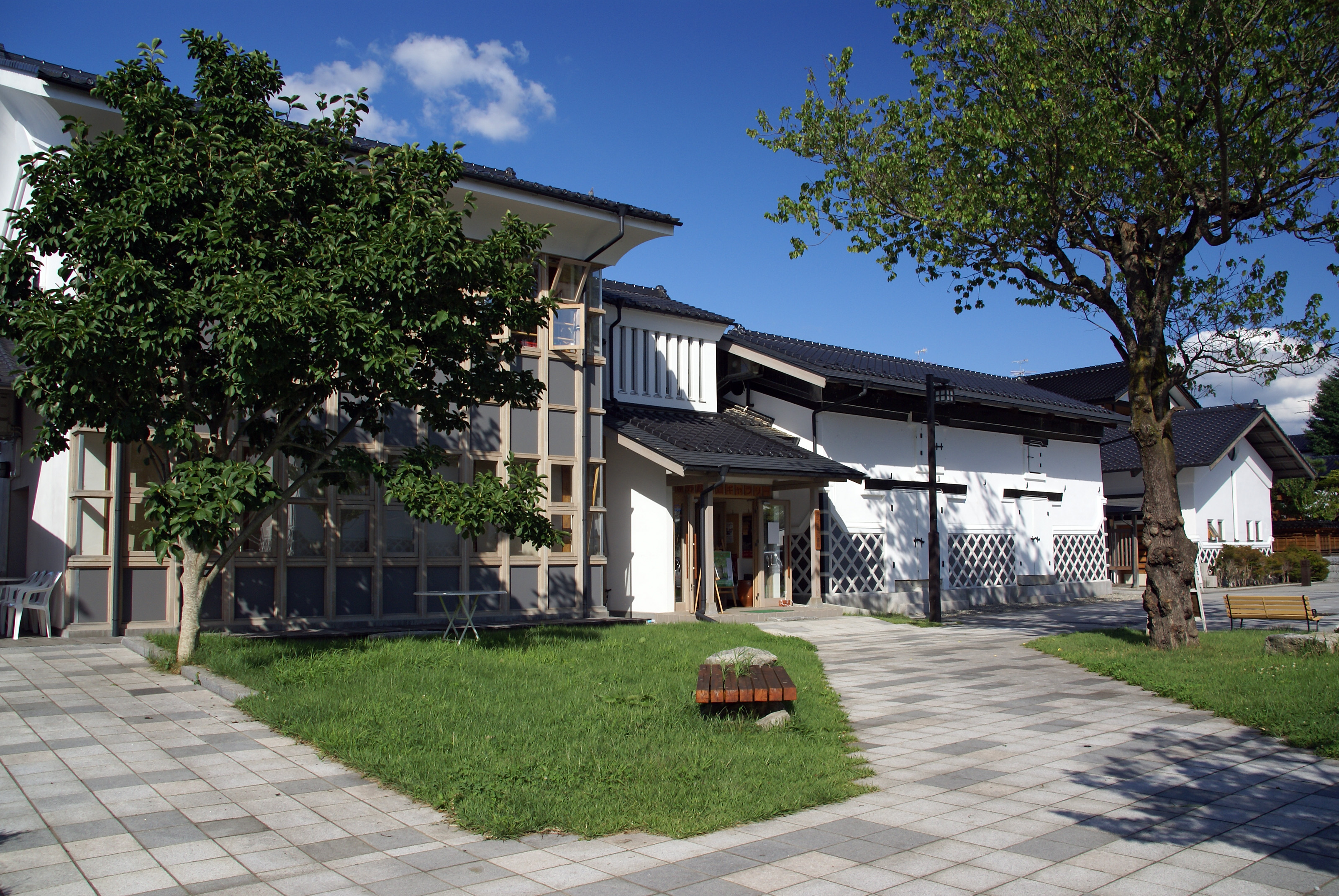 Tono Kura-no-michi Gallery, Tono, Iwate prefecture, Japan